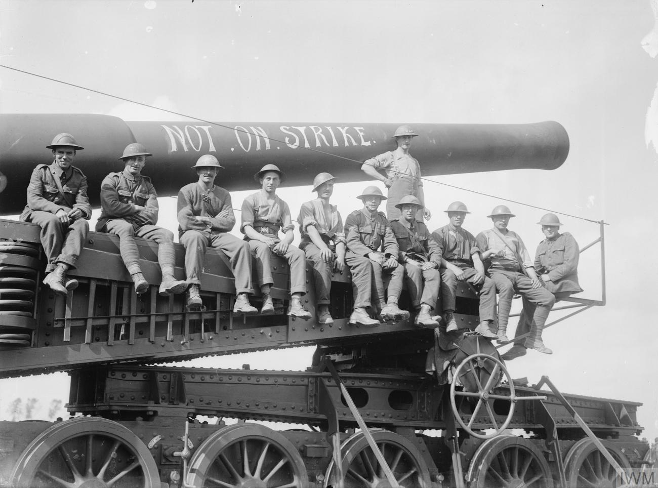 THE THIRD BATTLE OF YPRES (PASSCHENDAELE) 31 JULY - 10 NOVEMBER 1917 Battle of Langemarck 16-18 August: 12 inch railway gun at Woesten with its crew perched on it and the slogan "Not on Strike" on the barrel. NOTE : The pattern of the bogie wheels with the frame inside identifies this as a 12 inch Railway Gun on Vickers Mk I mounting. This is the gun on the Vickers mounting with the square-profiled carriage and no warping winch at the front.